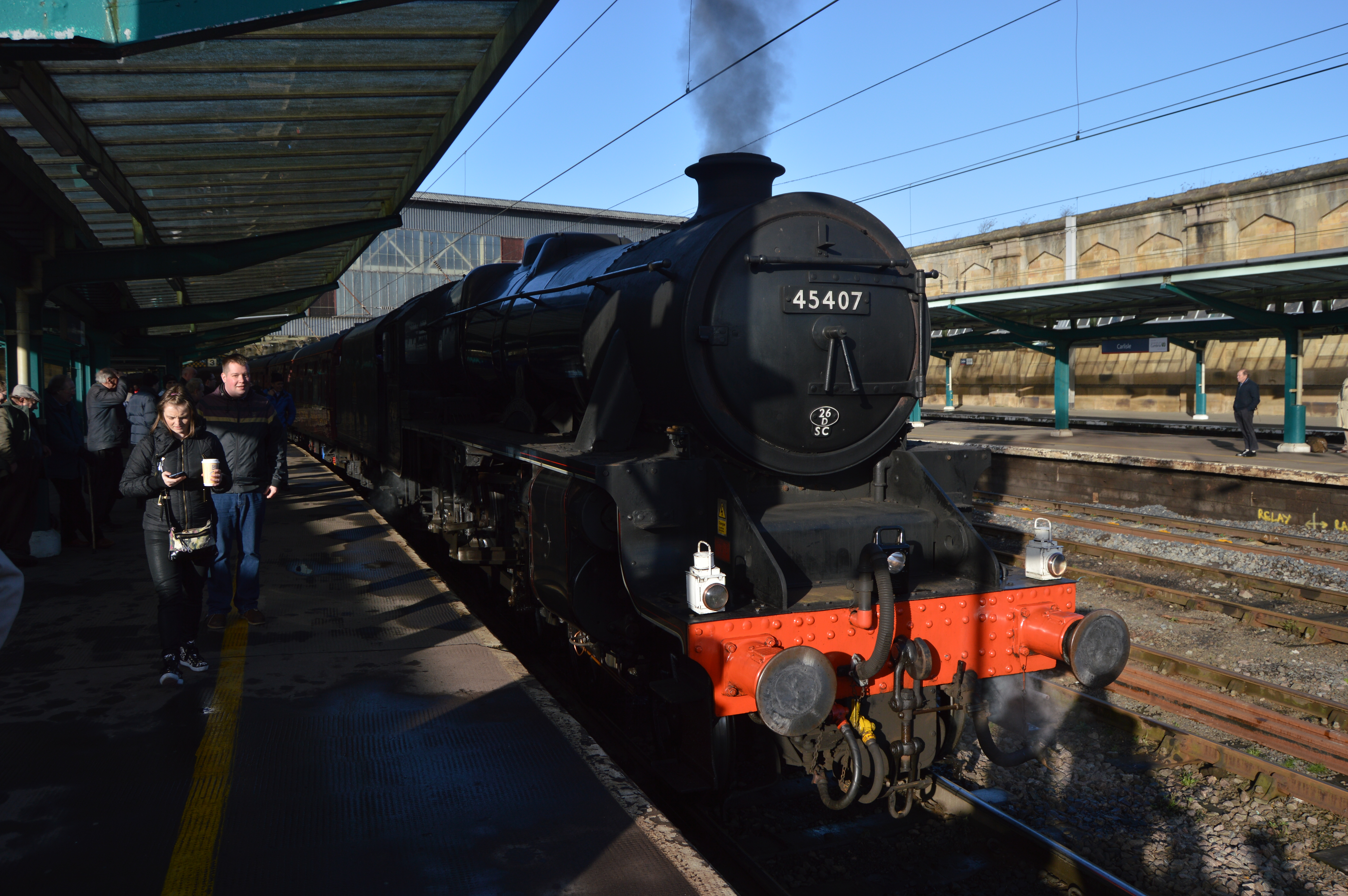 LMS Black 5 no 45407 The Lancashire Fusilier waiting in the platform at Carlisle to depart with the return leg of "The Winter Cumbrian Mtn Express" on Sat 24th January 2015.